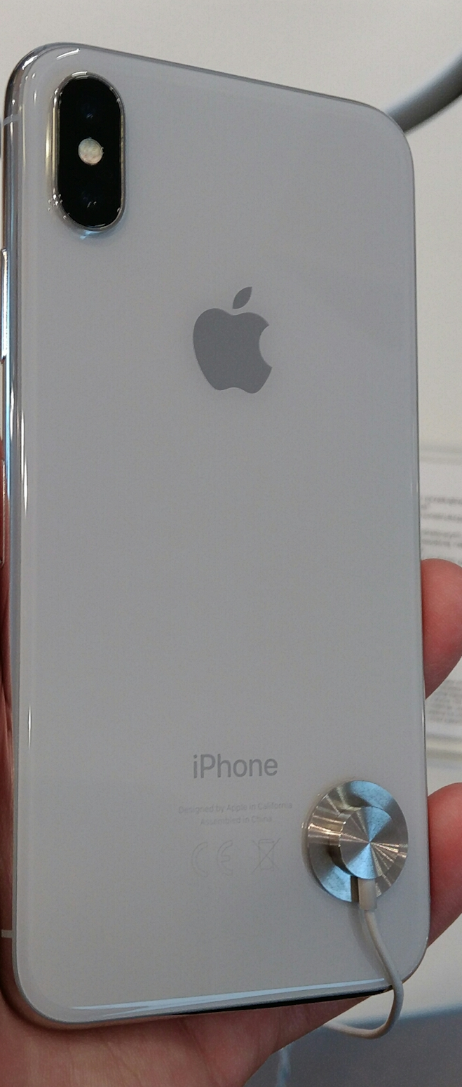 Apple iPhone X. rear